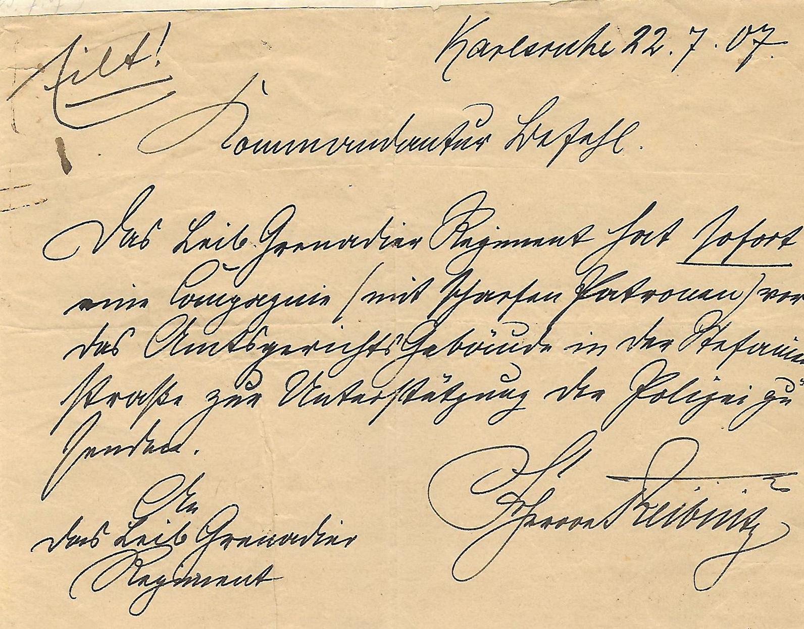 mission command in the Hau-Krawall